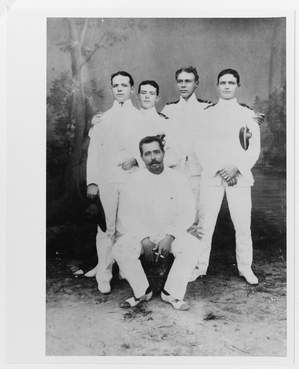 W. B. Hanna, Captain of 37th U.S. Volunteers; Ensign John W. Greenslade of USS CONCORD (PG-3); Ensign Cyrus W. Cole of USS CONCORD (PG-3); Lieutenant W. C. Davidson. Seated is Francisco, Pilot.